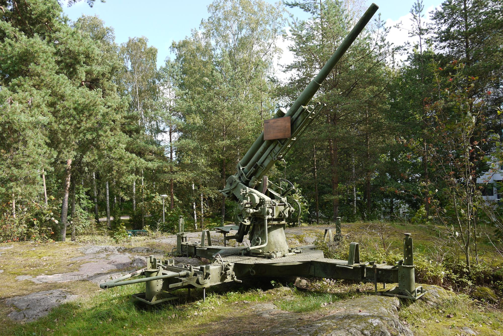 Captured Soviet 76 mm anti-aircraft cannon model 1931 in Tuulimäki, Espoo. Memorial of the heavy anti-aircraft battery 32 "Länsi", equipped with four such cannons in 1942-1944 at Tykkimäki in Tapiola.